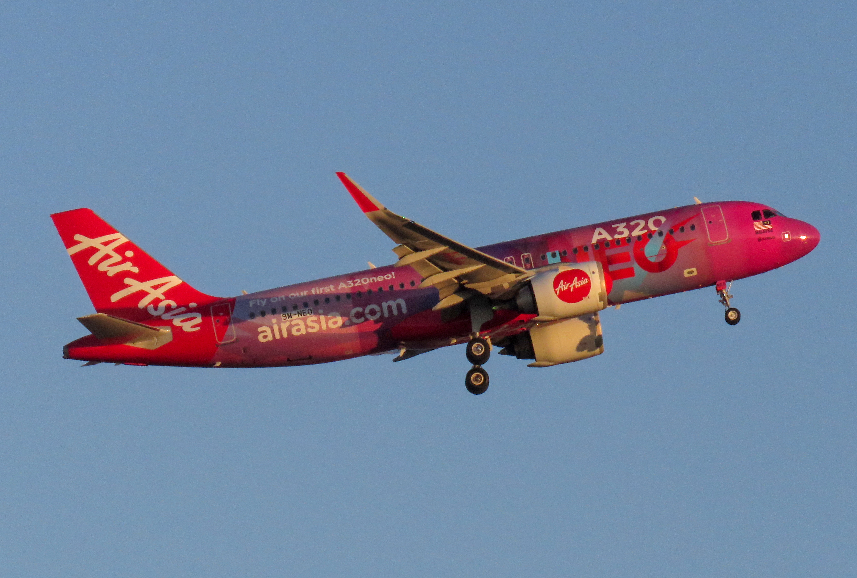 Red Cap 102 to Kuala Lumpur. ZPPP is yet to be discovered...